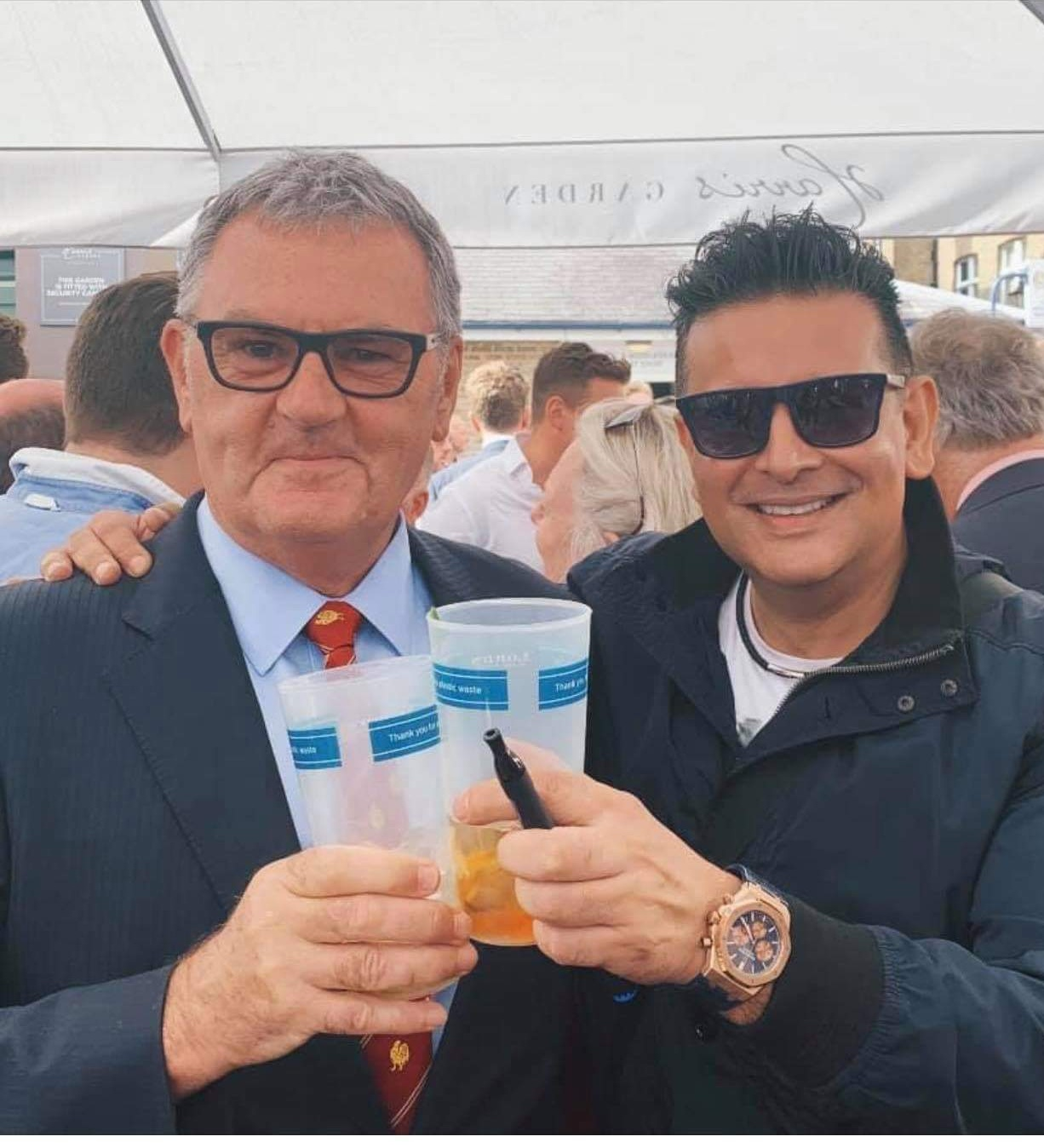 Photo of two high profile UK dentists